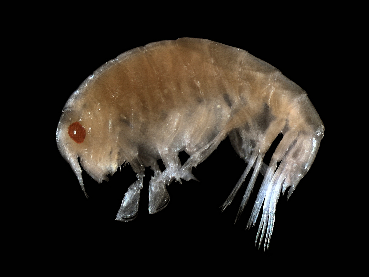 Benthic amphipod, taken with Axiocam (Zeiss) camera mounted on a Zeiss Stemi C-2000 binocular microscope.Belgian Continental Shelf 2004.